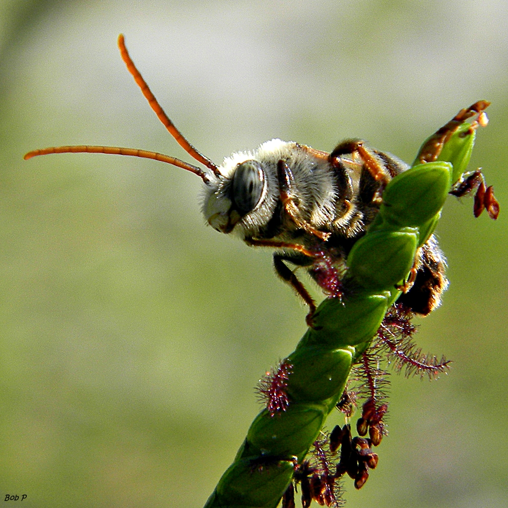 While I was trying to photograph Bahia grass, this fuzzy buzzing long-horned bee landed and asked me to take his photograph. These robust little bees are solitary so maybe he just wanted a friend to talk to. Frenchman's Forest Natural Area, Palm Beach County, Florida.